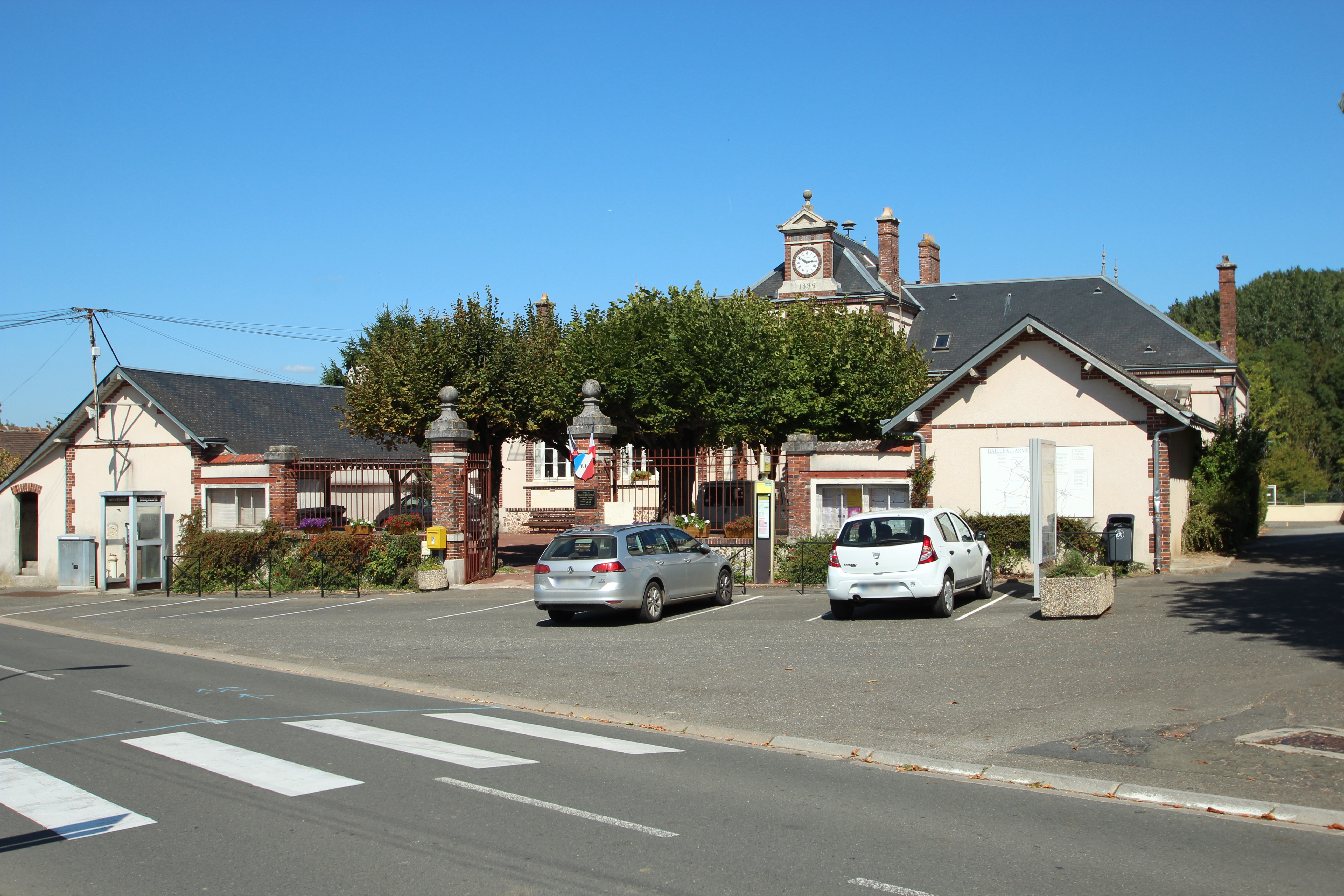 Town hall of Bailleau-Armenonville, France. Object location48° 31′ 55.95″ N, 1° 39′ 11.75″ E